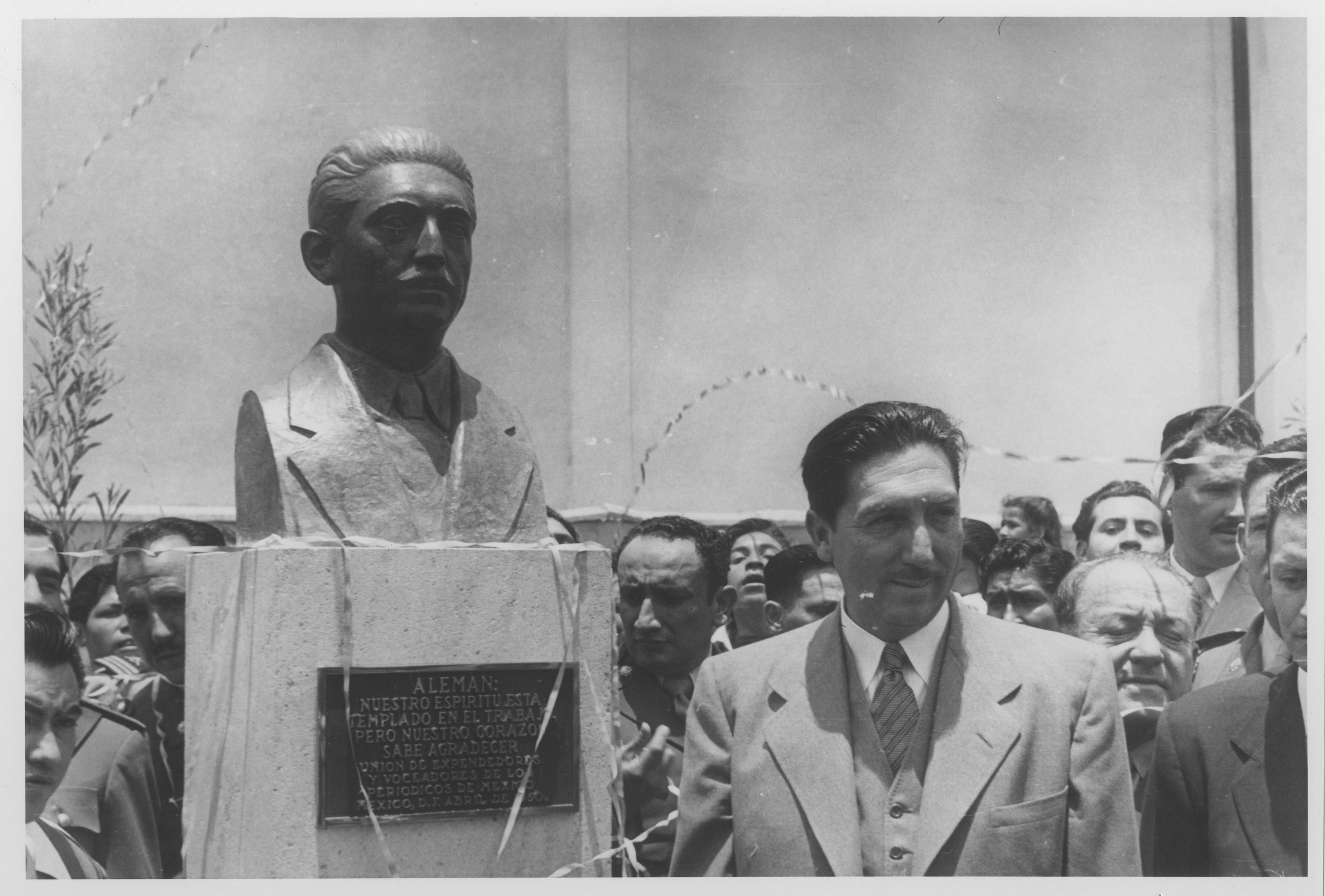 President Miguel Alemán inaugurates a bust of himself. Mexico City, Mexico.